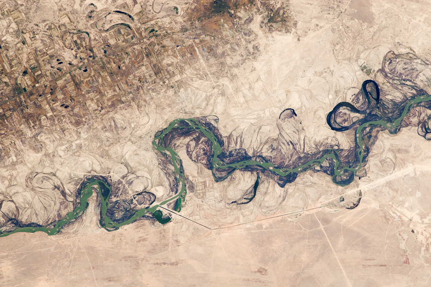 Syr Darya River Floodplain, Kazakhstan, Central Asia